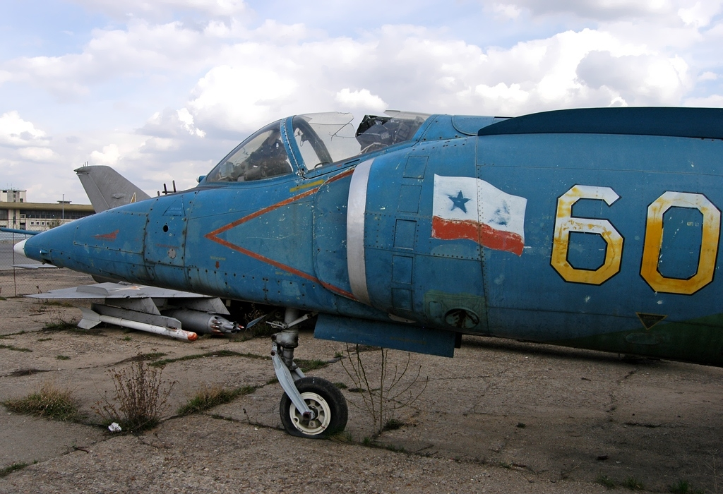 Yak-38 VTOL attack aircraft at Khodynka Field, Moscow